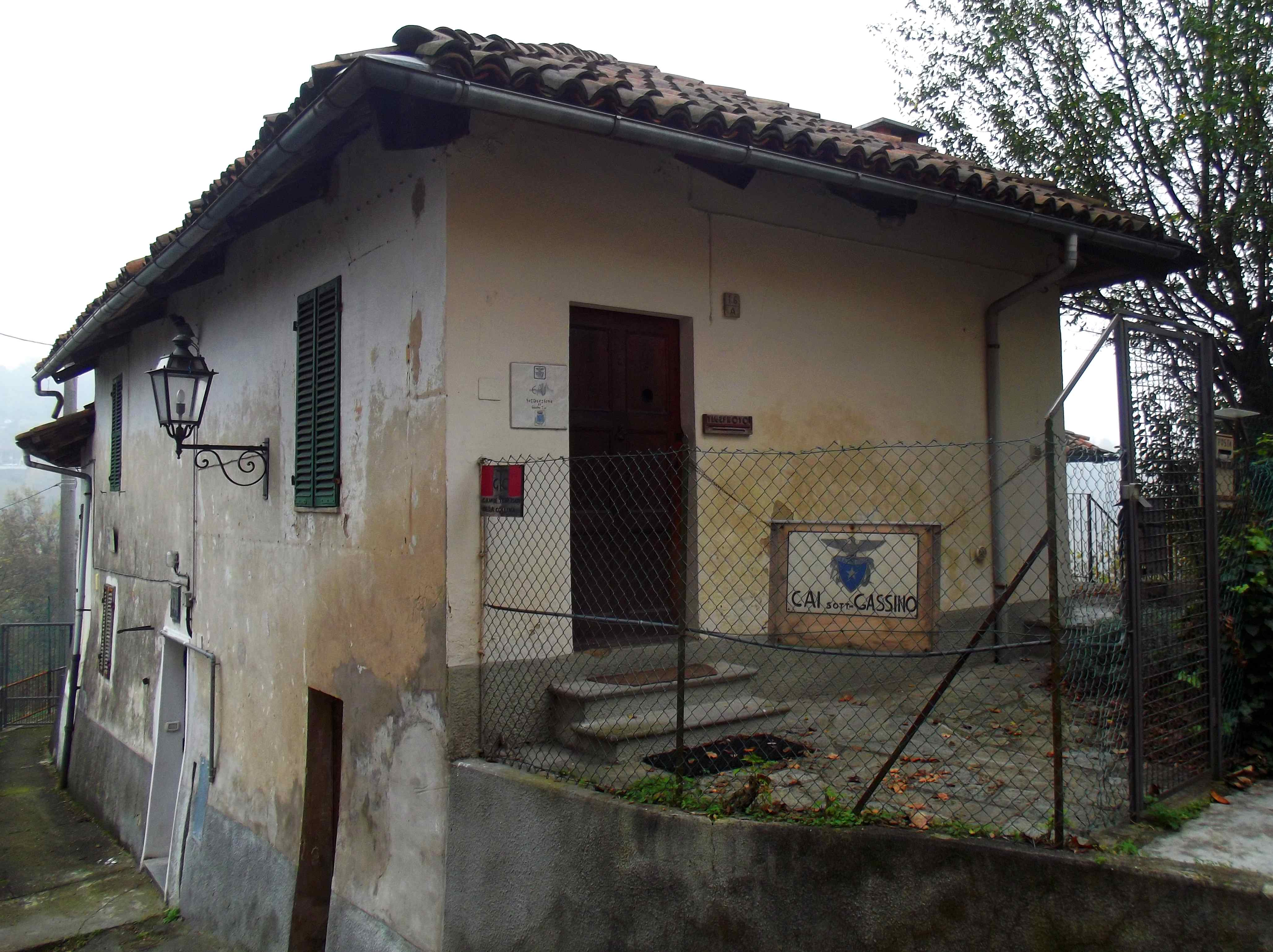 Bussolino (Gassino, TO, Italy): former primary school, then Italian Alpine Club local meetin point